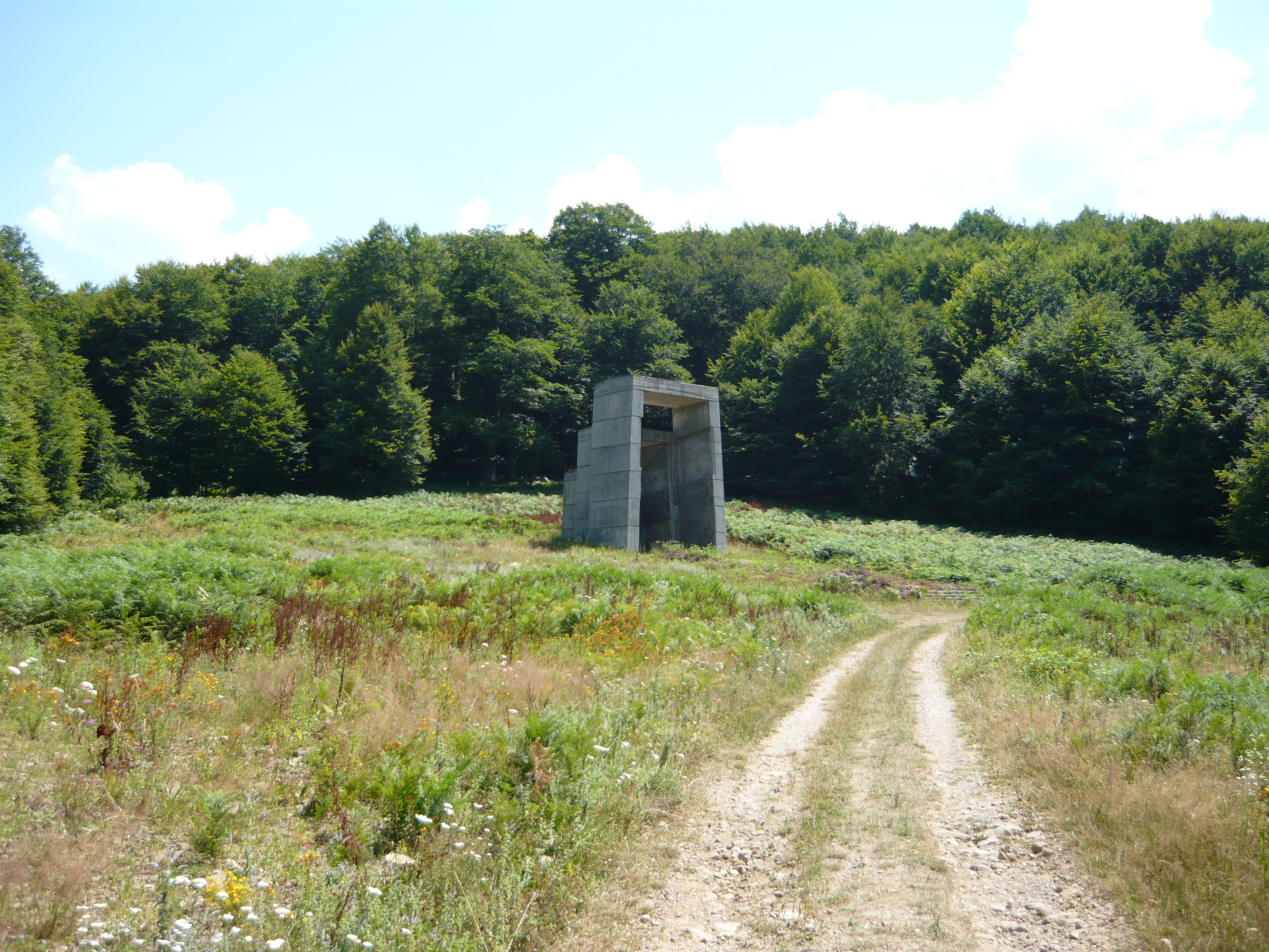 Concrete sculpture in mountains of Bulgaria.